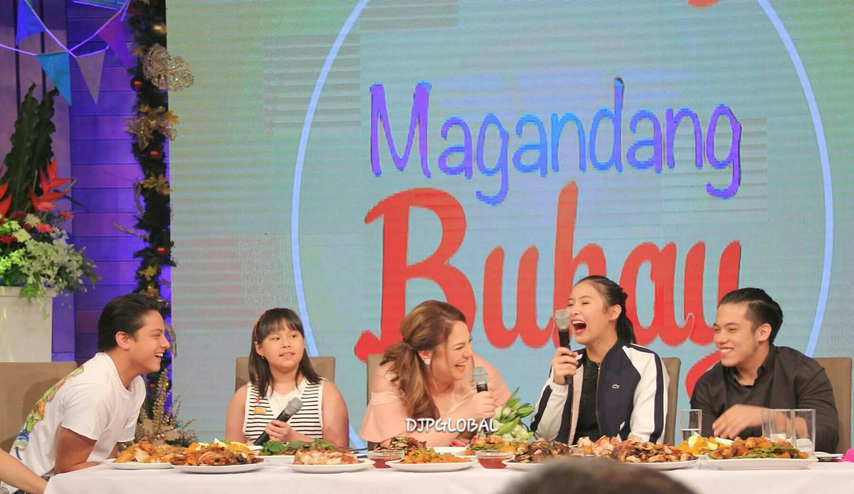 Daniel Padilla and Family surprise guest form mother Karla Estrada birthdat celebration at Magandang Buhay in 2016